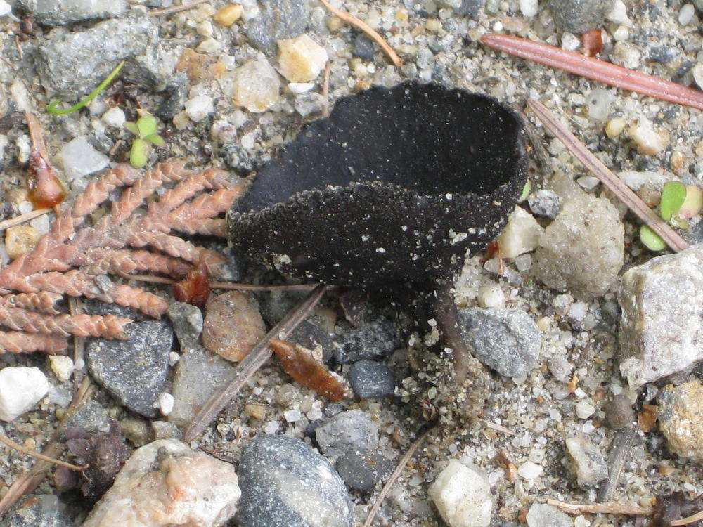 A fruit body of the cup fungus Plectania nannfeldtii/Donadinia nigrella Korf. Specimen photographed in Salmon Arm, B.C., Canada.